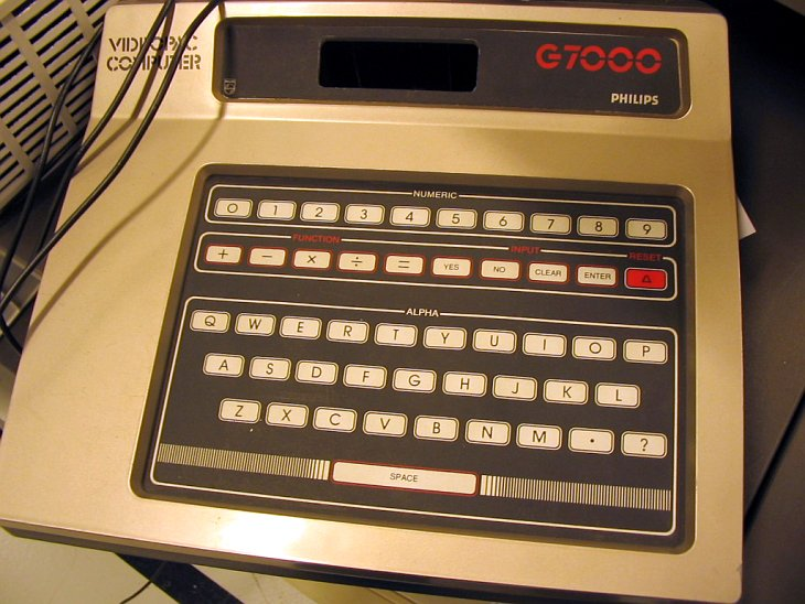 Computer Magnavox Odyssey²